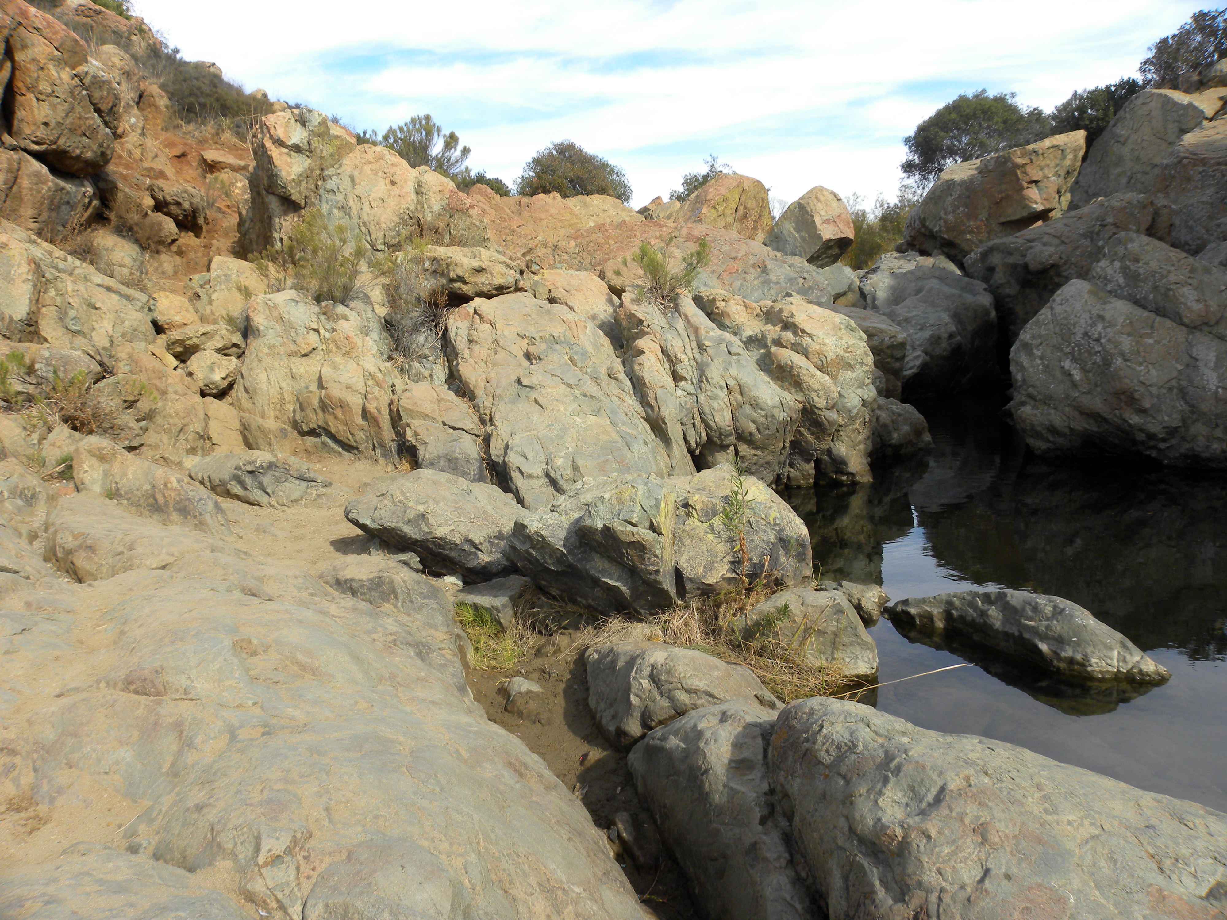 Metaconglomerate rock formations at Los Peñasquitos Canyon Preserve, northern San Diego, Southern California.